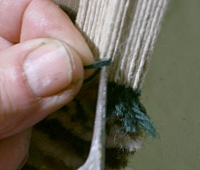 carpet knotting